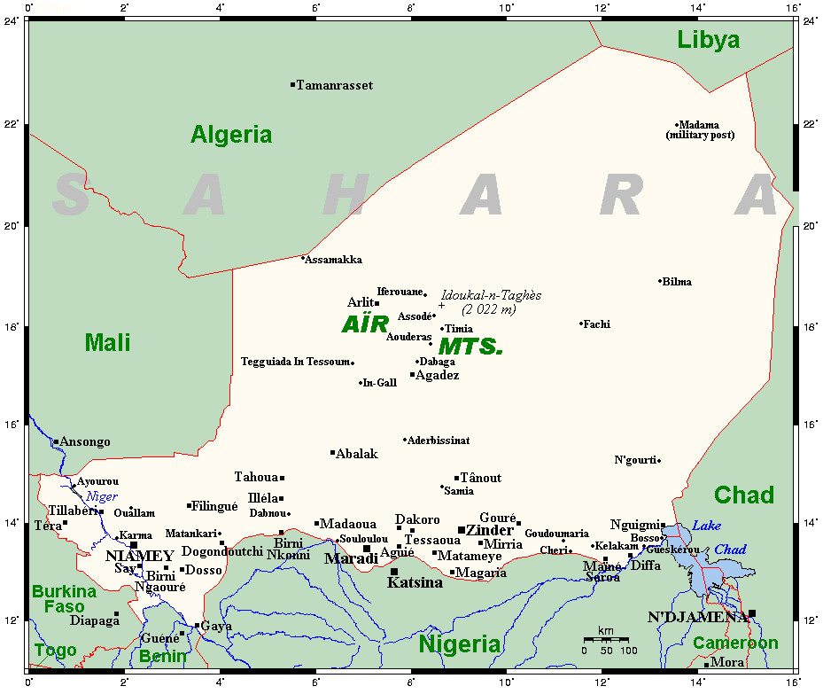 A map showing Niger's cities and main towns, along with selected smaller centres and the country's highest point.